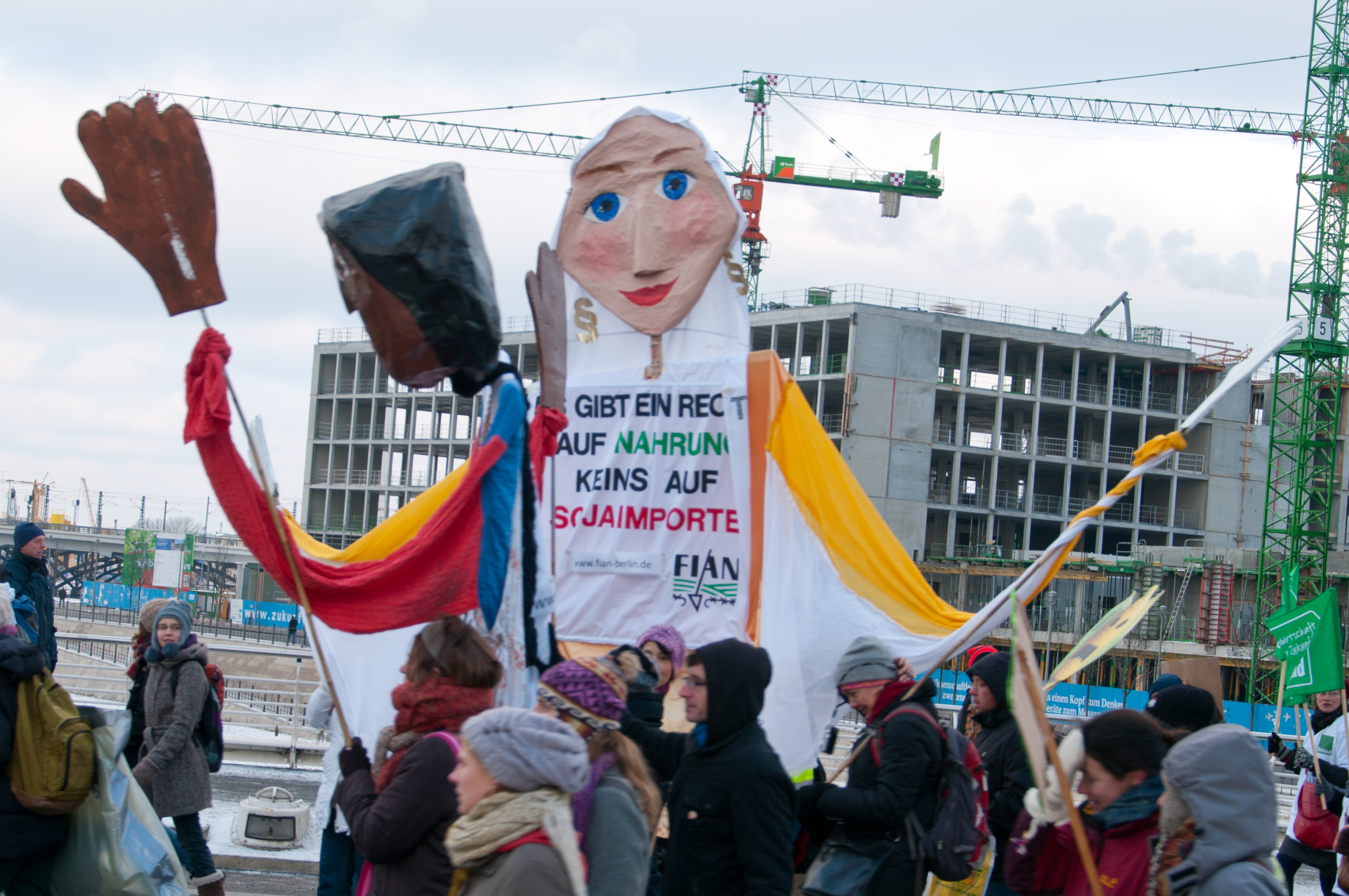 "Wir haben es satt!" (We are fed up) protest 2013.